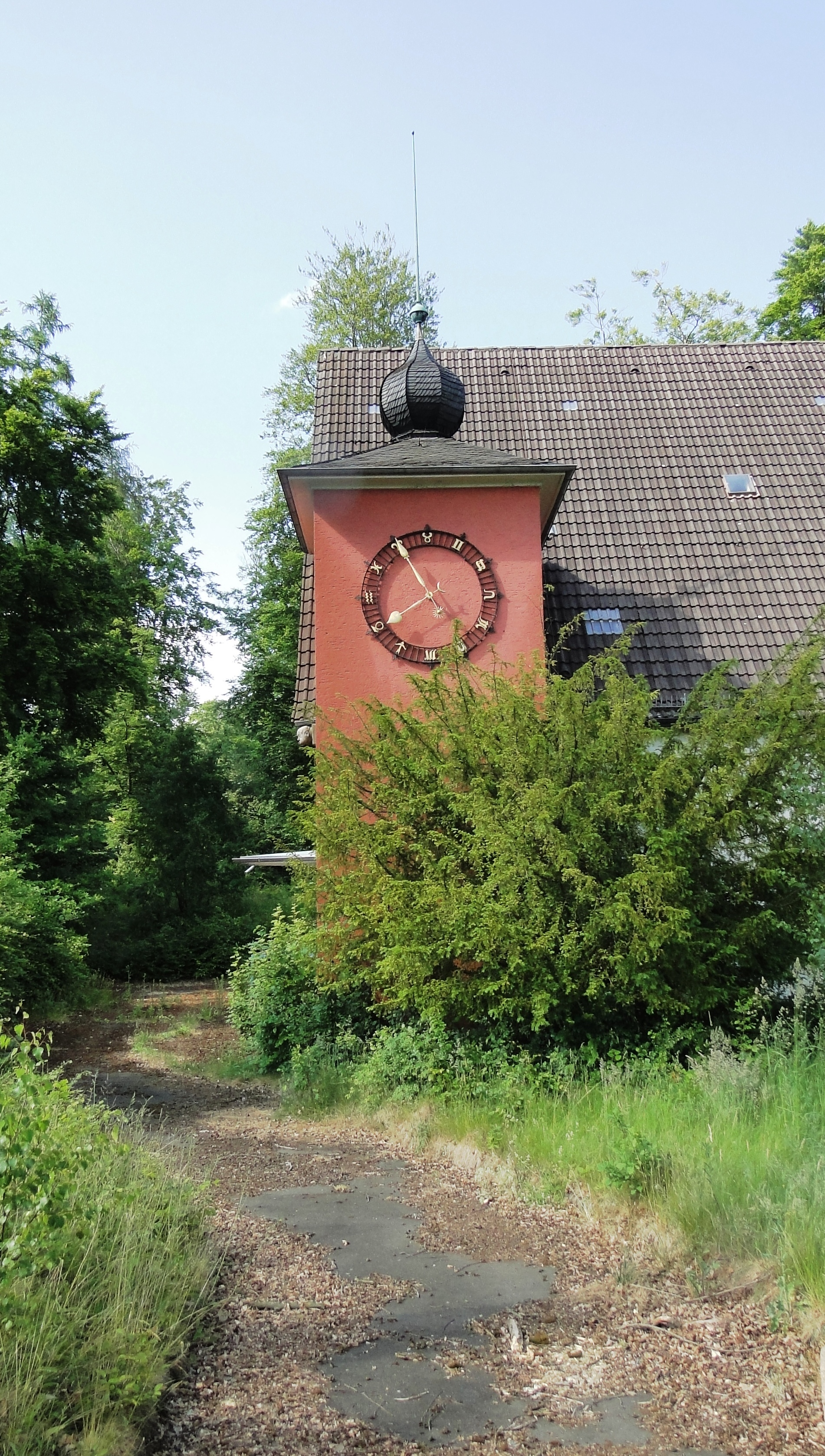 The clock at the mess hall of the former Fritz Erler Kaserne/Airfield Rothwesten at Fuldatal-Rothwesten near Kassel, Germany. June 2015